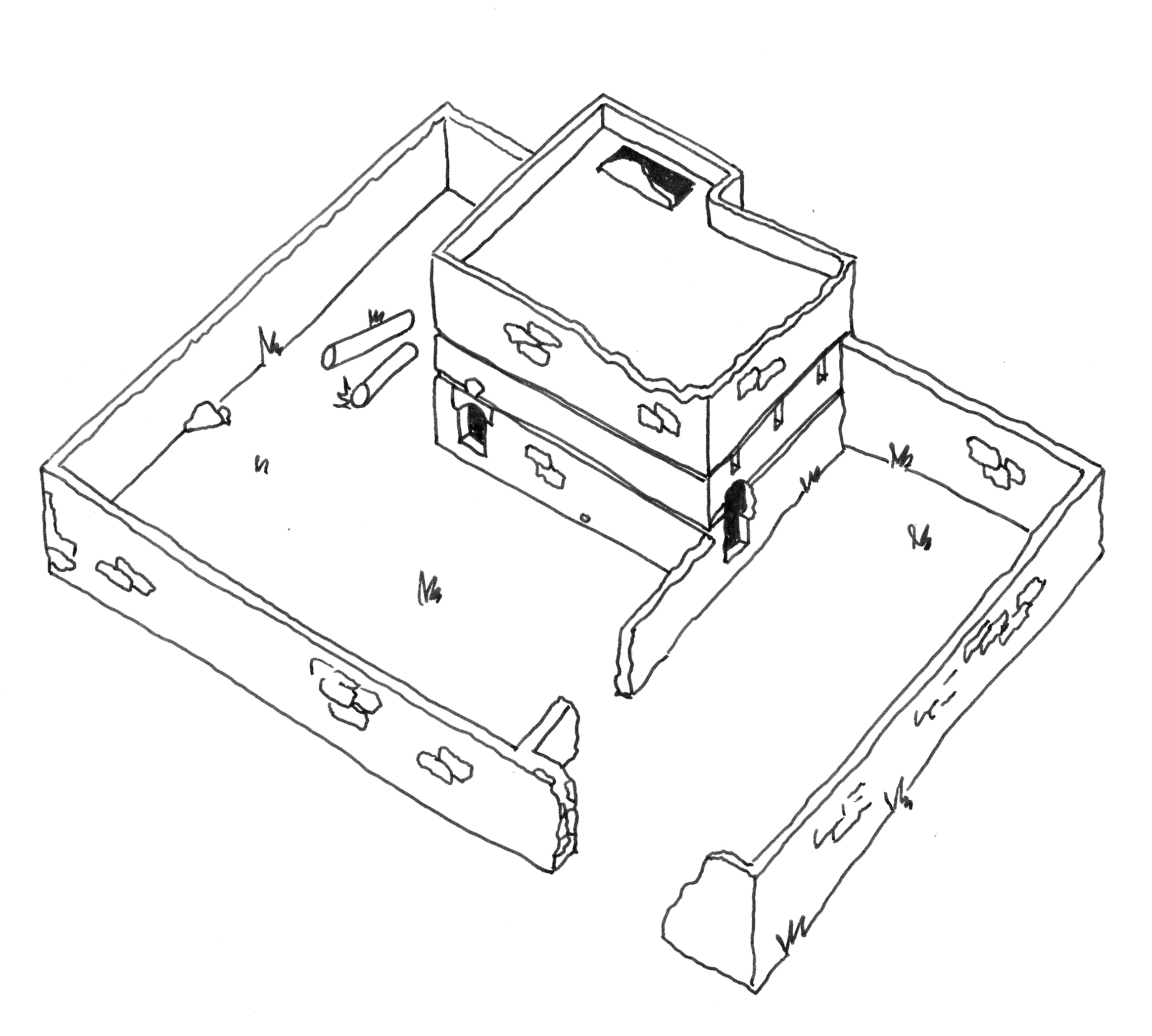 Drawing of the Seljuk Hunting Lodge in Kemer/Antalya, Turkey